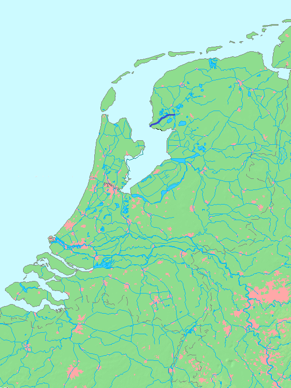 Location Johan Willem Frisokanaal in Friesland the Netherlands